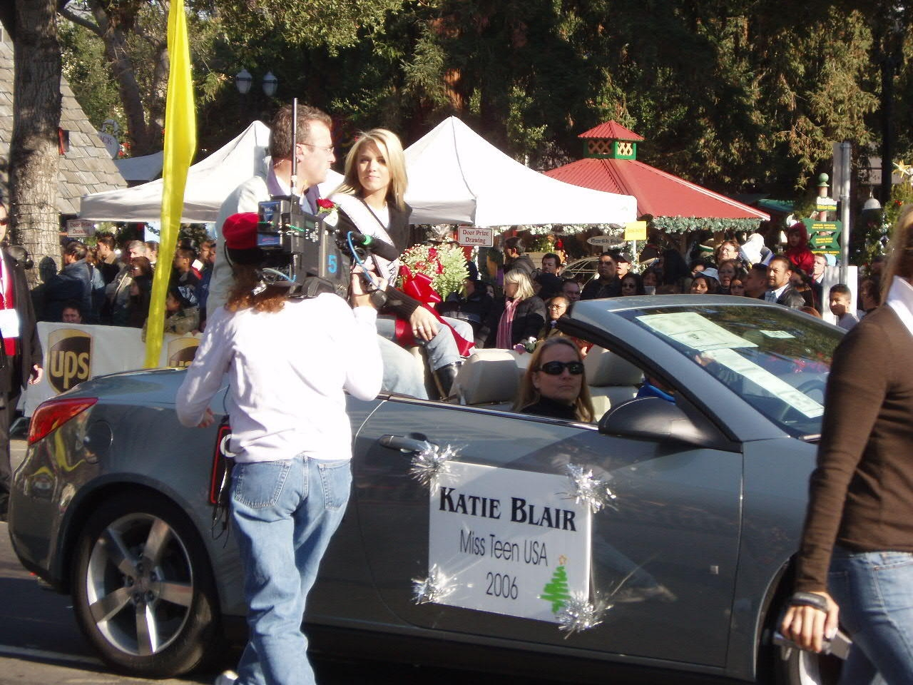 Katie Blair, Miss Teen USA 2006 in a Christmas parade.